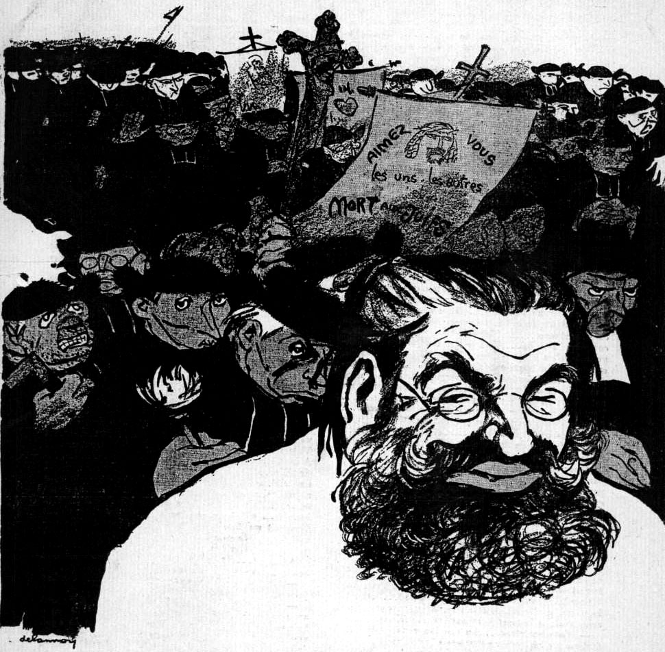 Caricature d'Edouard Drumont parue dans Les Hommes du jour